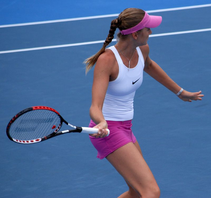 Daniela Hantuchová forehand.